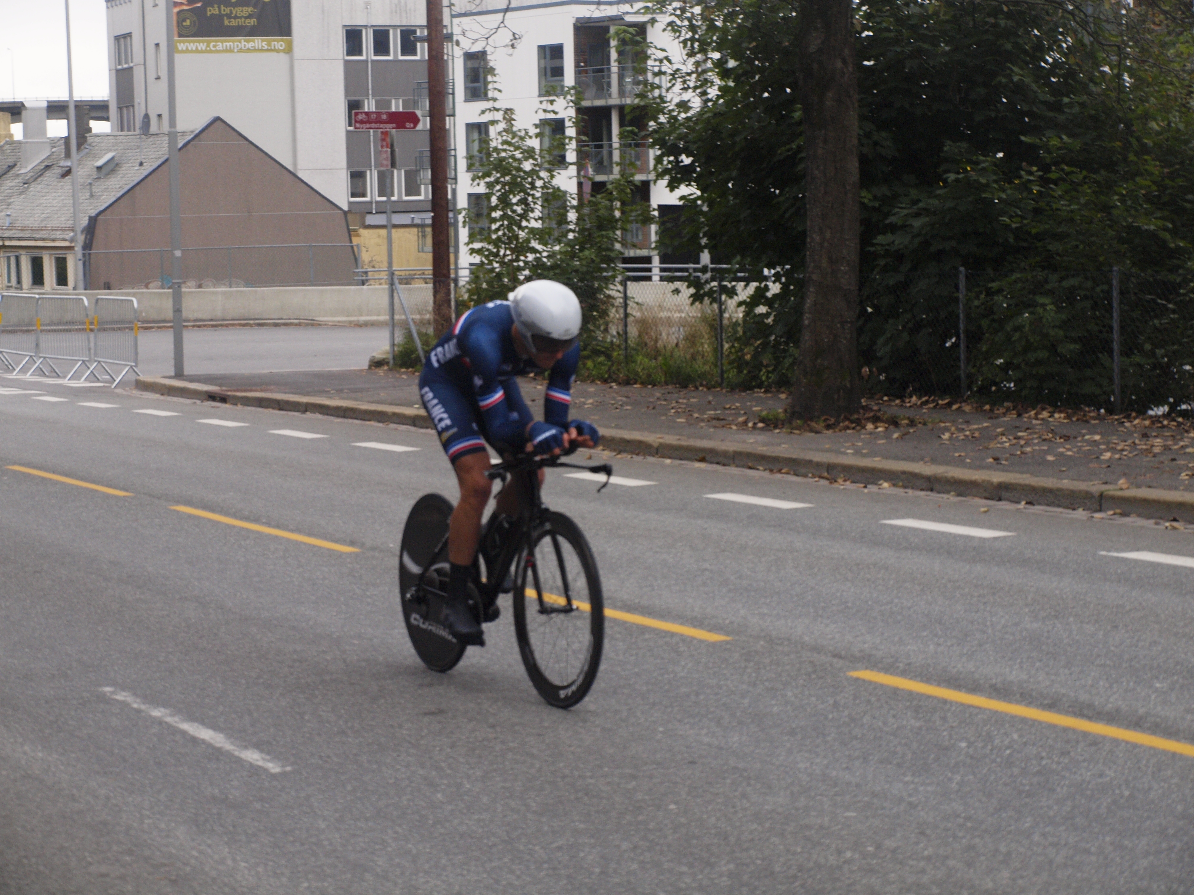 Alexis Renard at the 2017 UCI World Championships